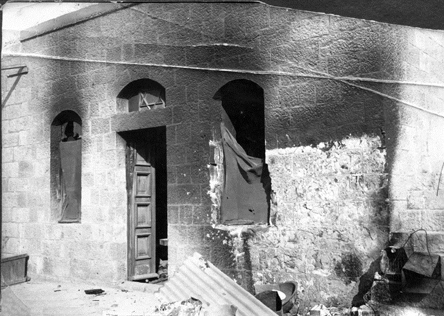 Jewish house destroyed in Motza during Arab riots, 1929